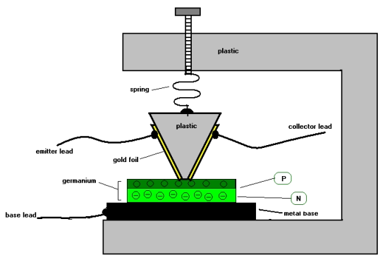 Point-contact_transistor